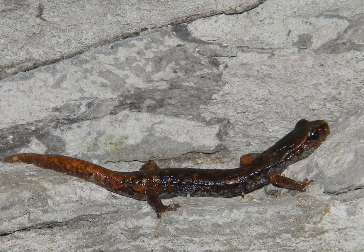 Speleomantes italicus, adult, an Amphibian from Italy